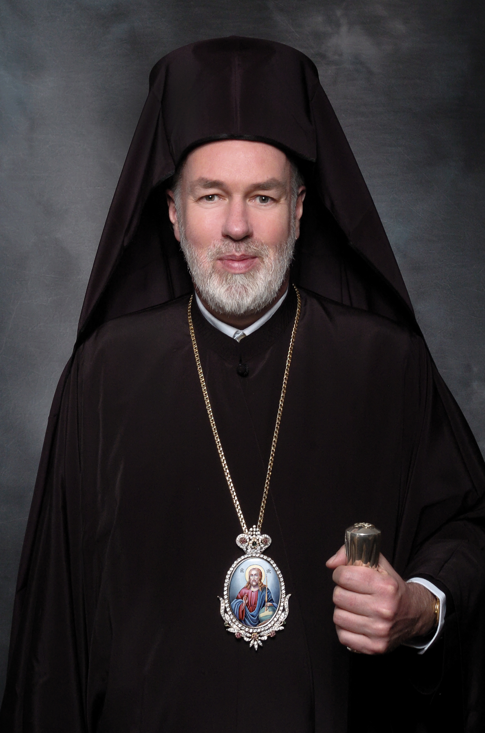 Metropolitan Athenagoras Peckstadt, archbishop of the Ecumenical Patriarchate of Constantinople